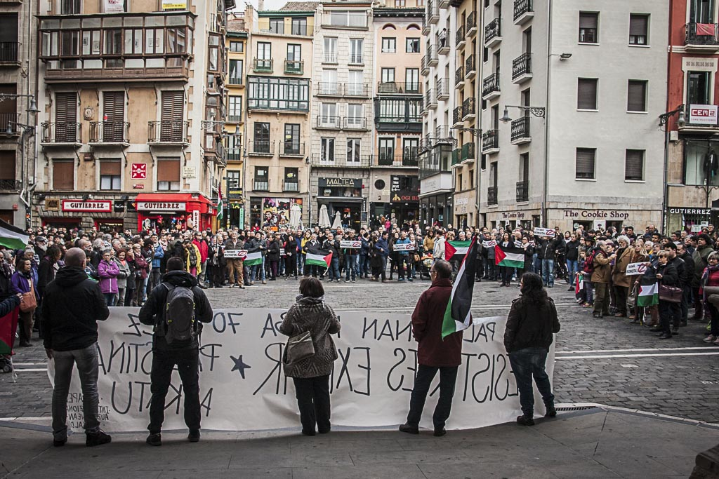 Solidarity gathering in Pamplona following the massacre of Palestinians during the 2018 spring Gaza protests